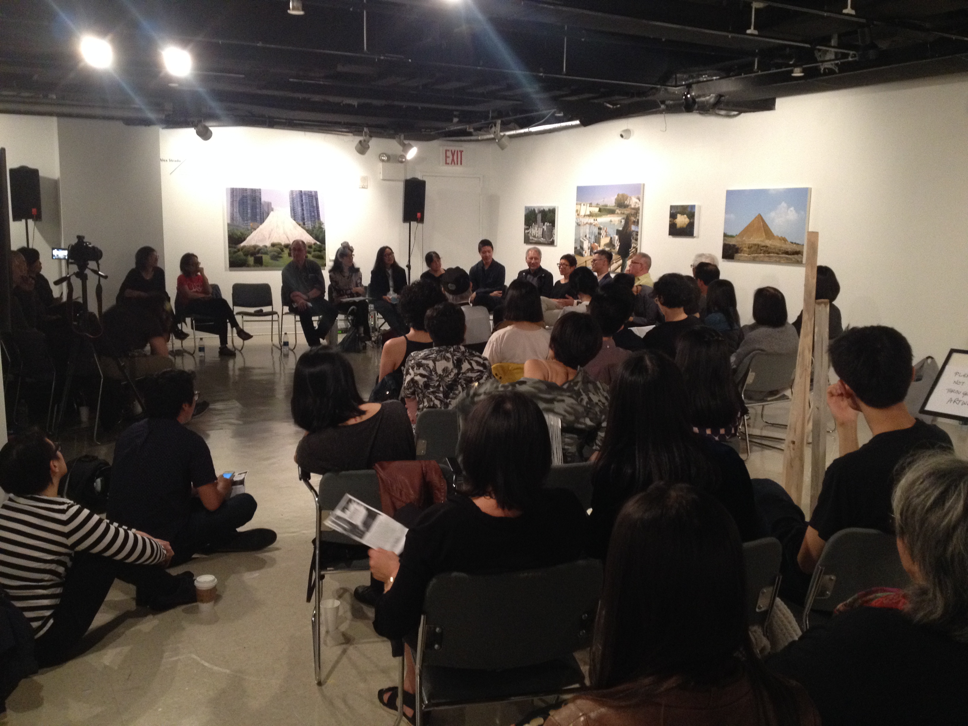 Godzilla Asian American Arts Network meetup